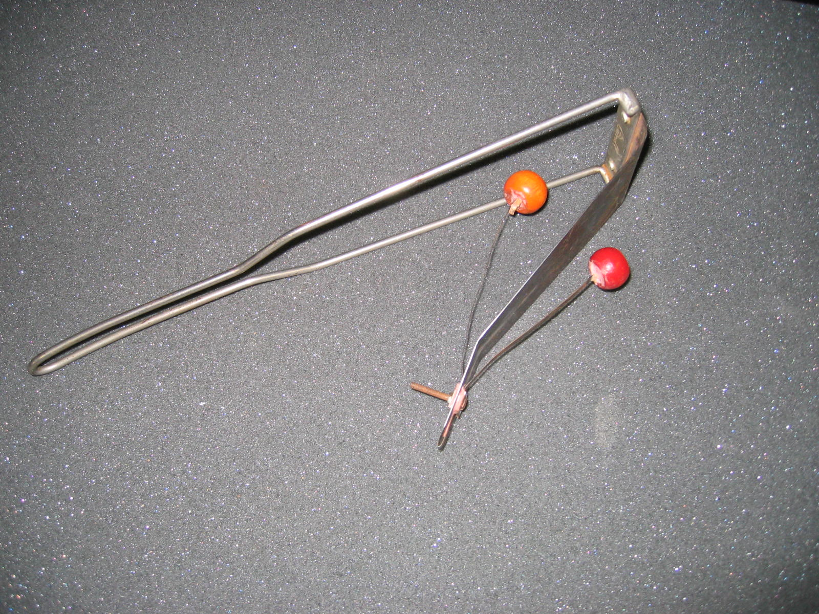 Flexatone, percussion instrument